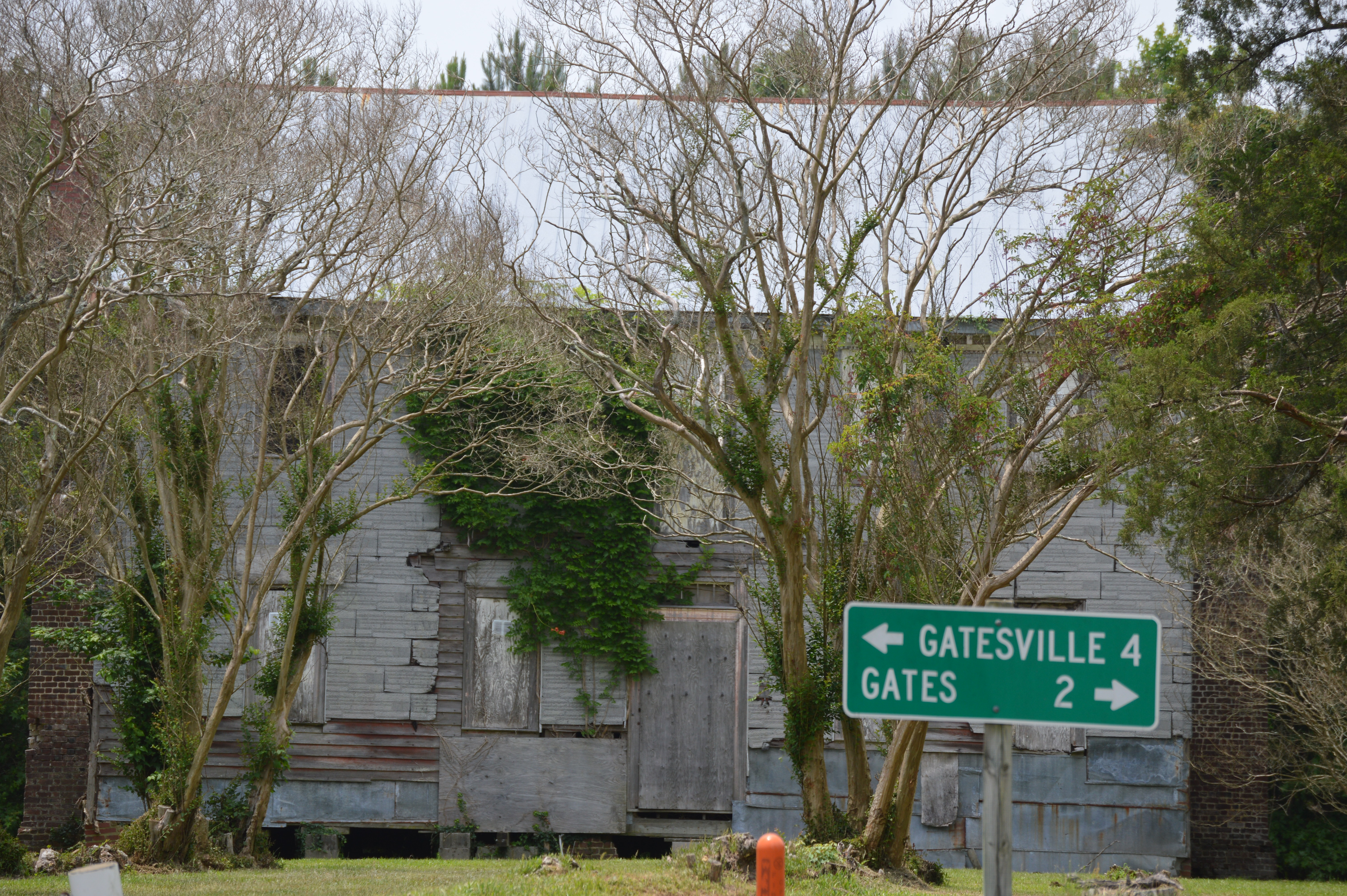 Front of Buckland, located on North Carolina Highway 37 at the crossroads of Buckland in Gates County, North Carolina, United States. Built in 1795, it is listed on the National Register of Historic Places.